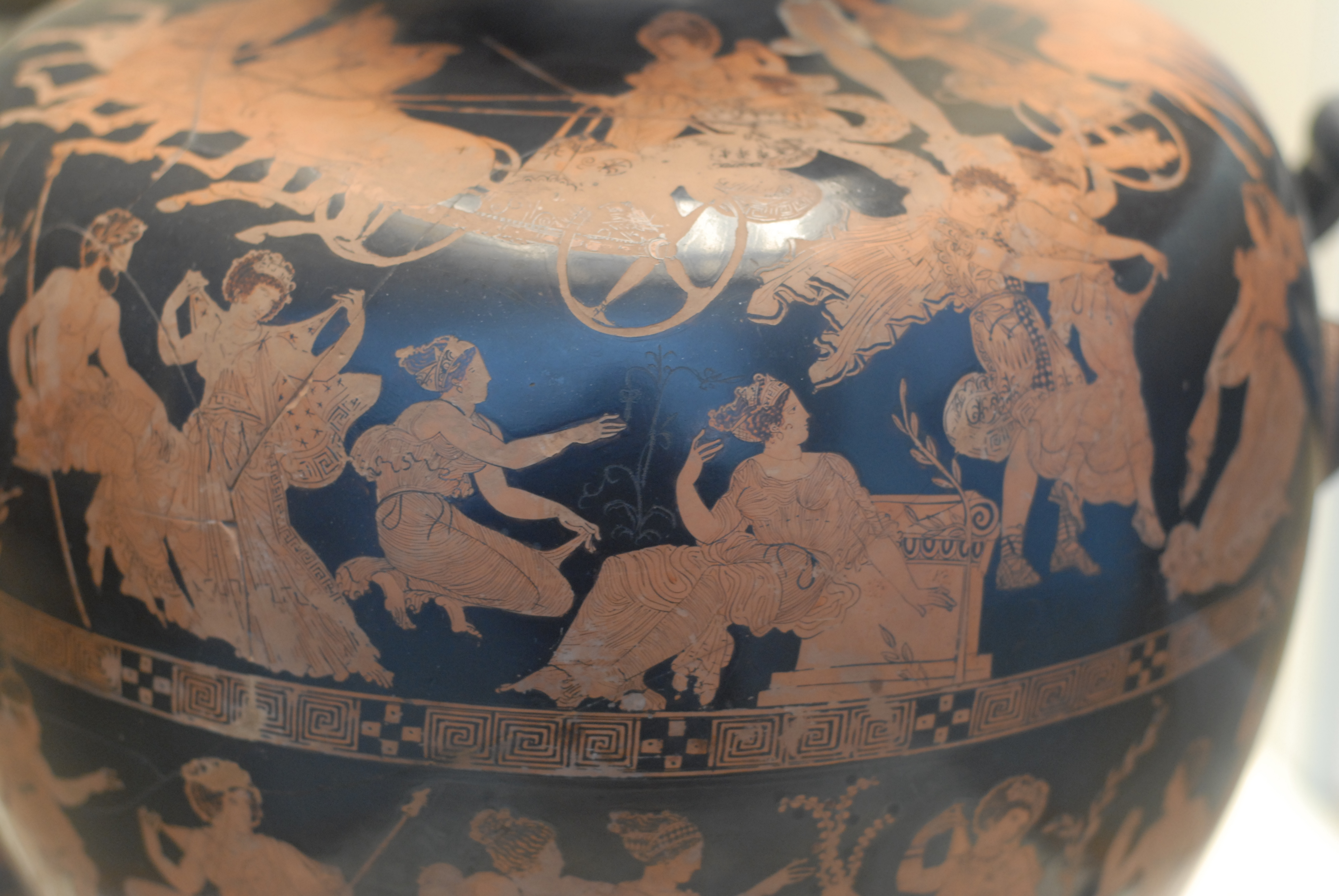 Rape of the Leucippids by the Dioscuri. Attic red-figured hydria, ca. 420–400 BC. Polydeukes and Elera in chariot above, below, l-r, Zeus, Agaue, Chryseis, Aphrodite.